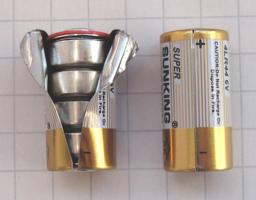 A partially open 4LR44 battery showing the arrangement of the 4 1.5V LR44 cells. With an intact example for comparison. On a 7mm grid.